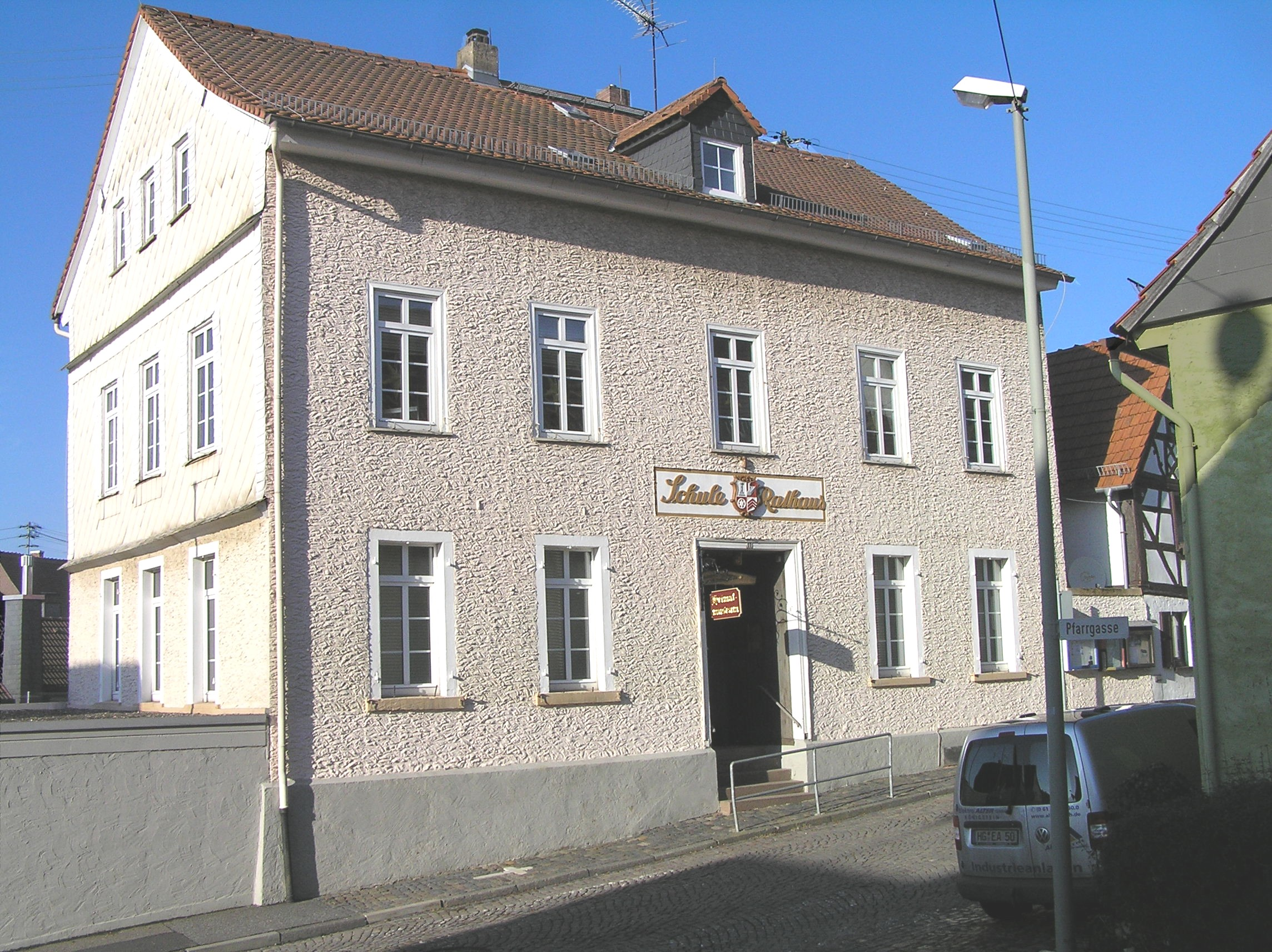 Museum Schloßborn